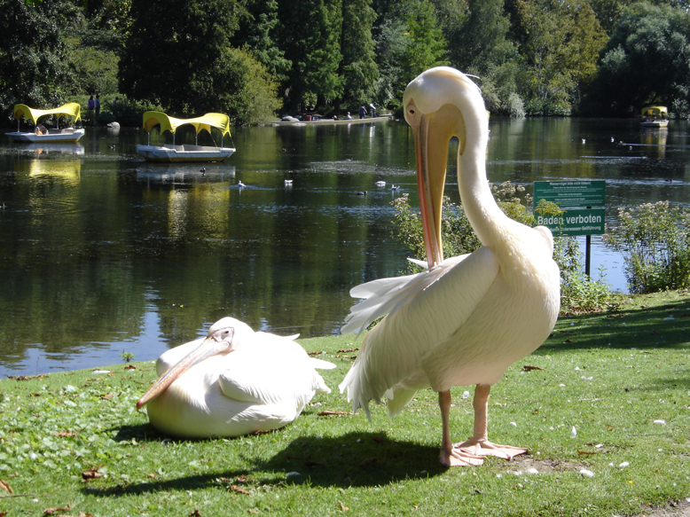 Luisenpark at Mannheim, Germany. You can see the "Kutzerweiher" with the yellow boats called "Gondoletta" and the big pelicans in the front.